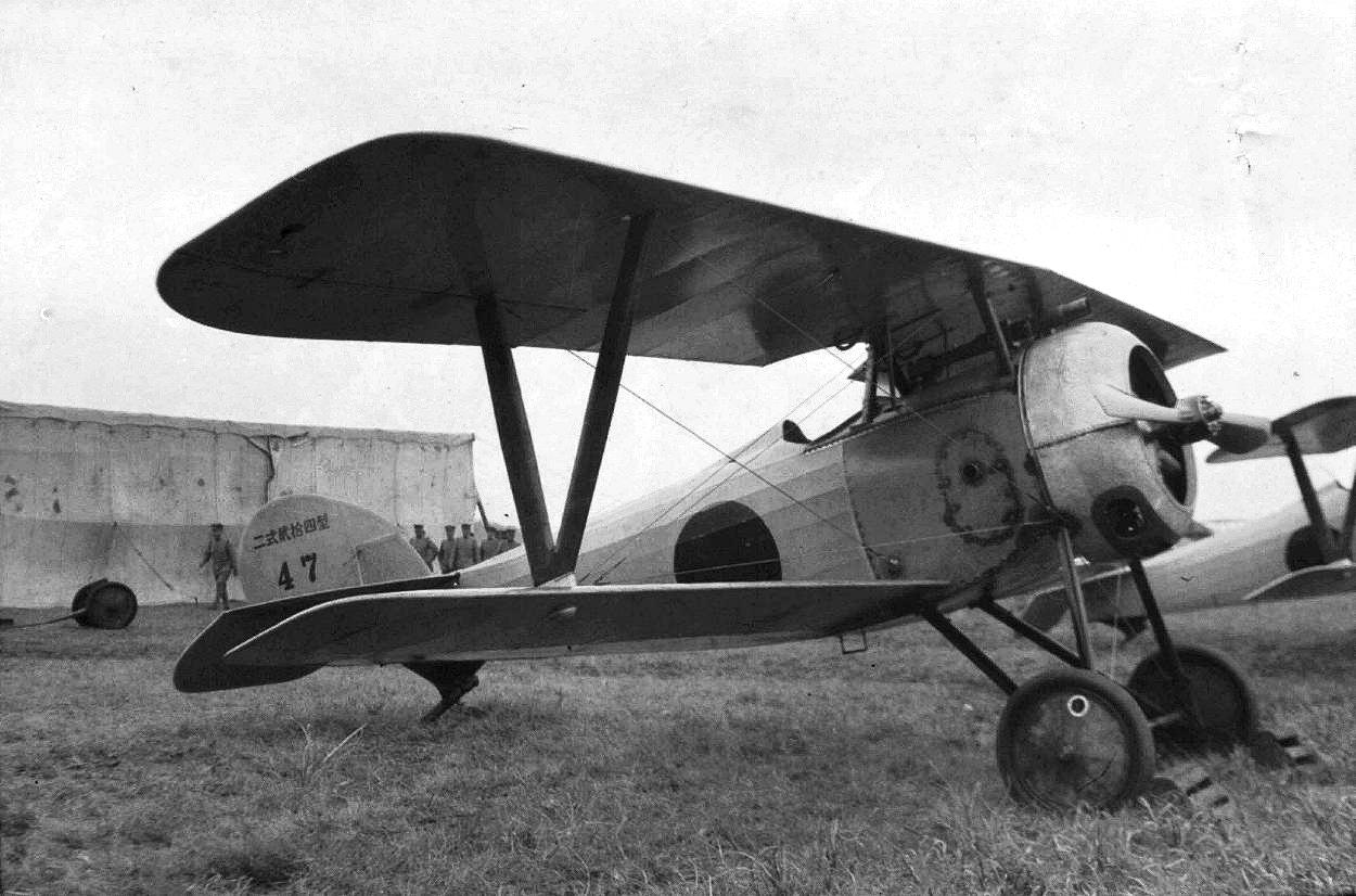 Type 2 Model 24 fighter aircraft was French fighter aircraft Nieuport 24 imported by the Imperial Japanese Army.